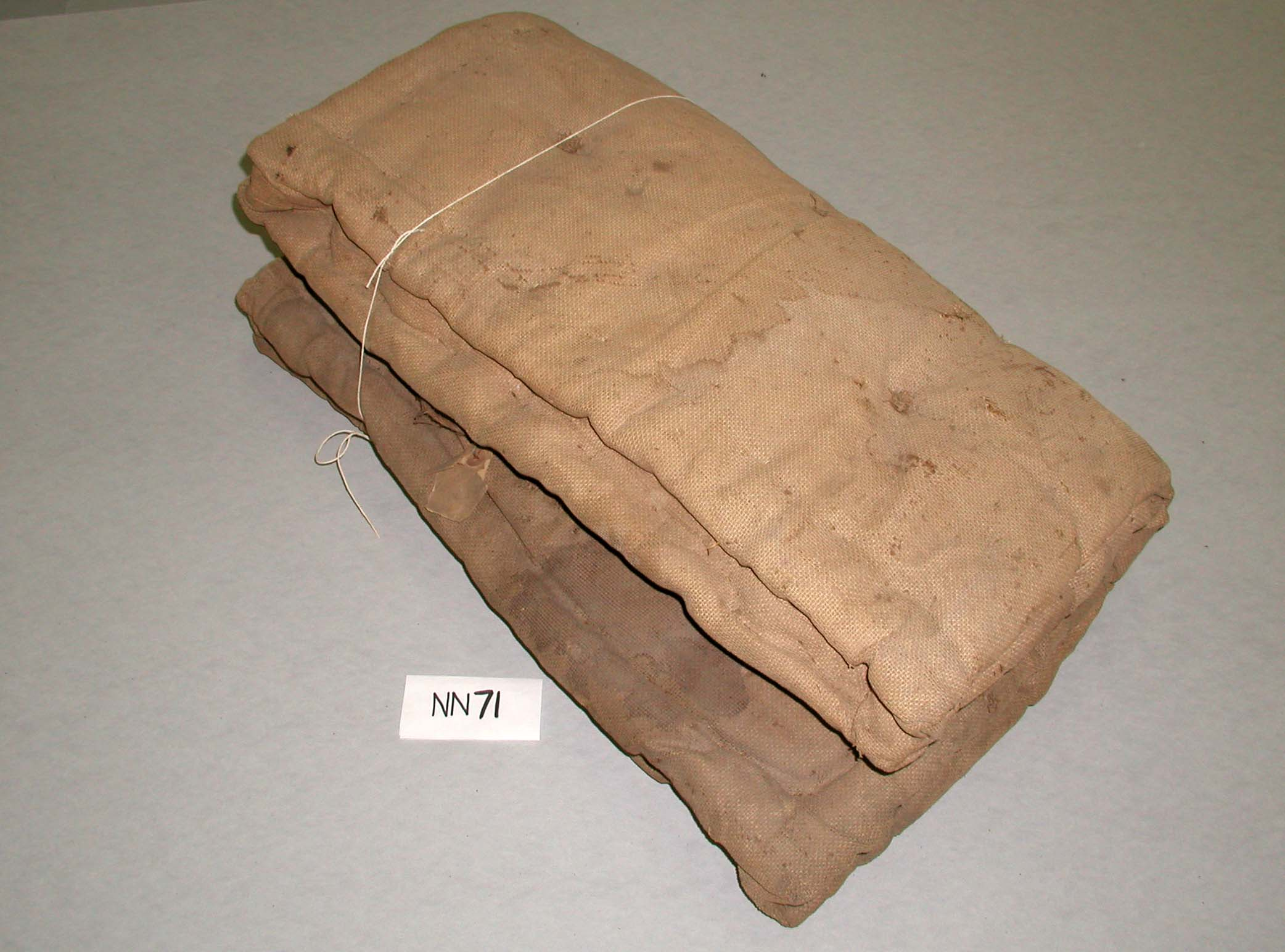 Straw mattress